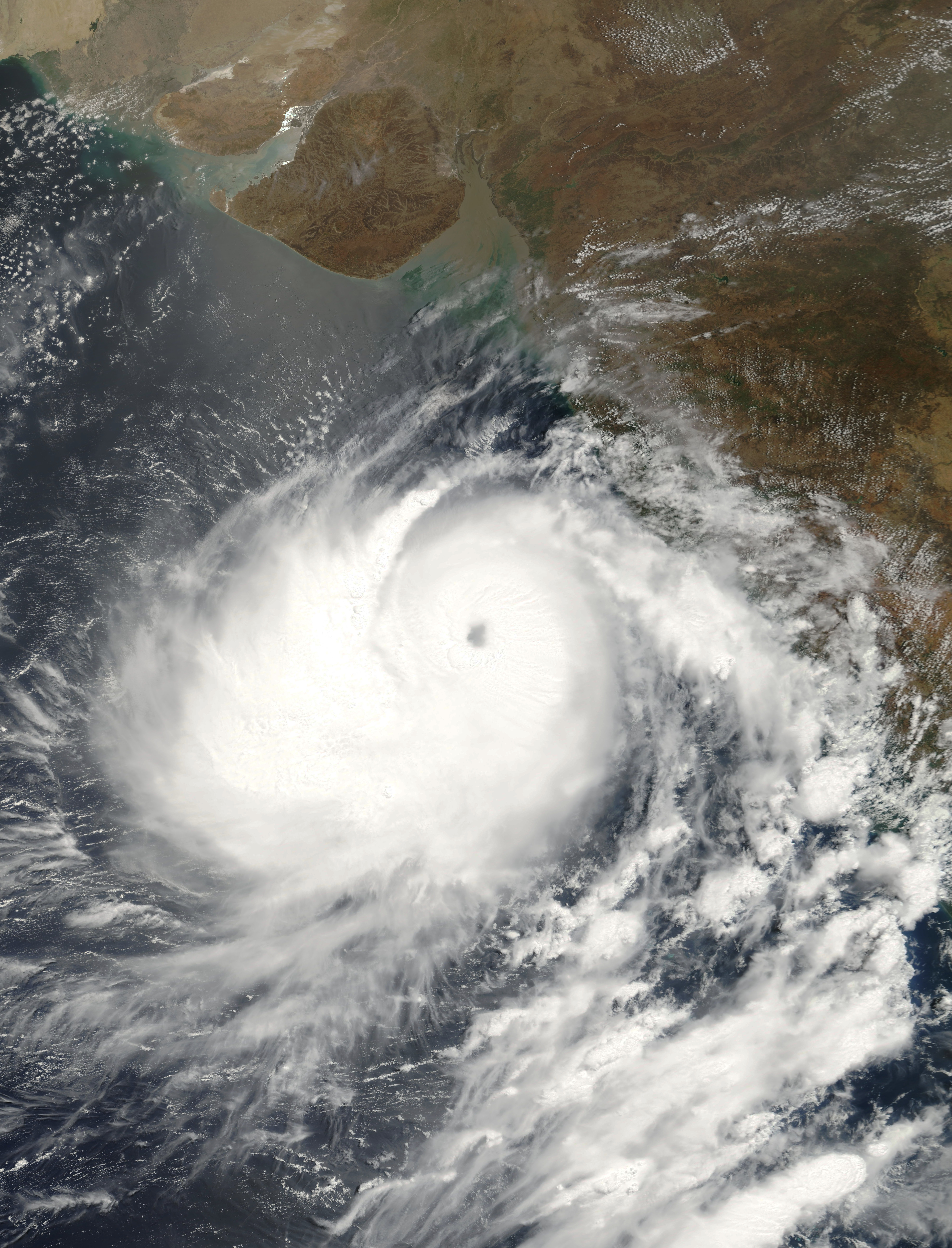 Extremely Severe Cyclone ARB 01 (also known as 2001 India Cyclone) before peak intensity of May 23